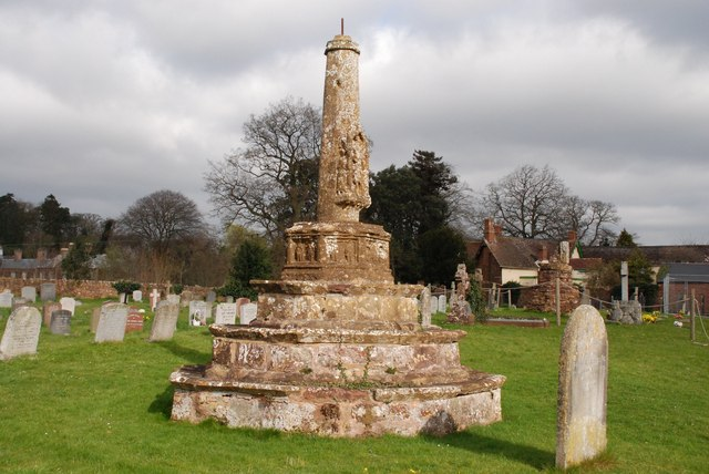 14th-century stone cross in St Mary the Virgin's parish churchyard, Bishops Lydeard, Somerset